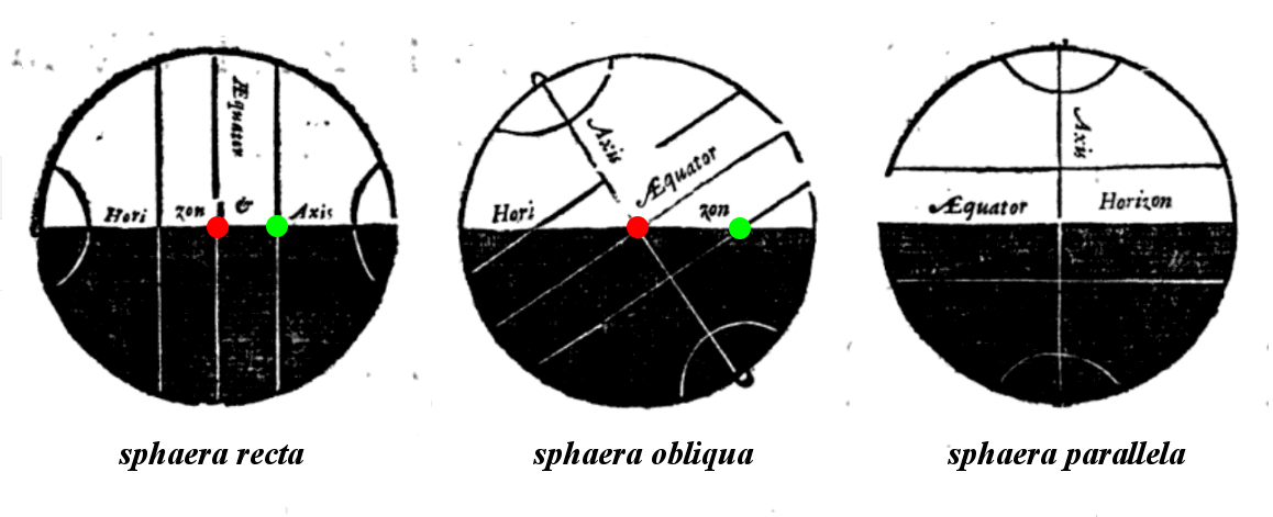 Diagram from Bleau, Guilielmi (1668), Institutio Astronomica, depicting the orientation of the horizon, polar axis, and the celestial equator; for purposes of showing how the "ascension" was defined.